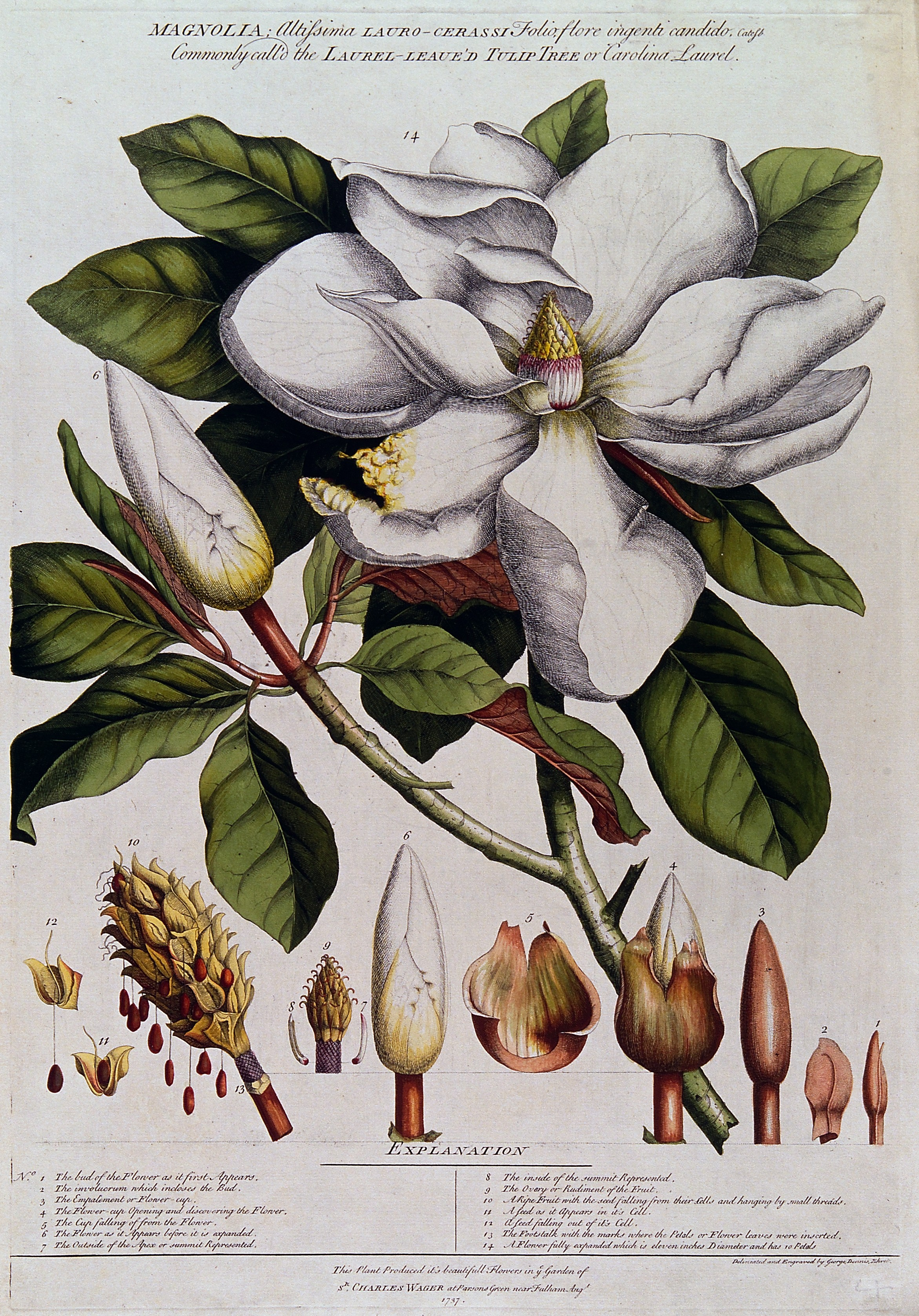 A Magnolia species: flowering stem with labelled floral segments, fruit and seed. Coloured etching by G. D. Ehret, c.1737, after himself. Iconographic Collections Keywords: Georg Dionysius Ehret; Botany; ic; Magnolia